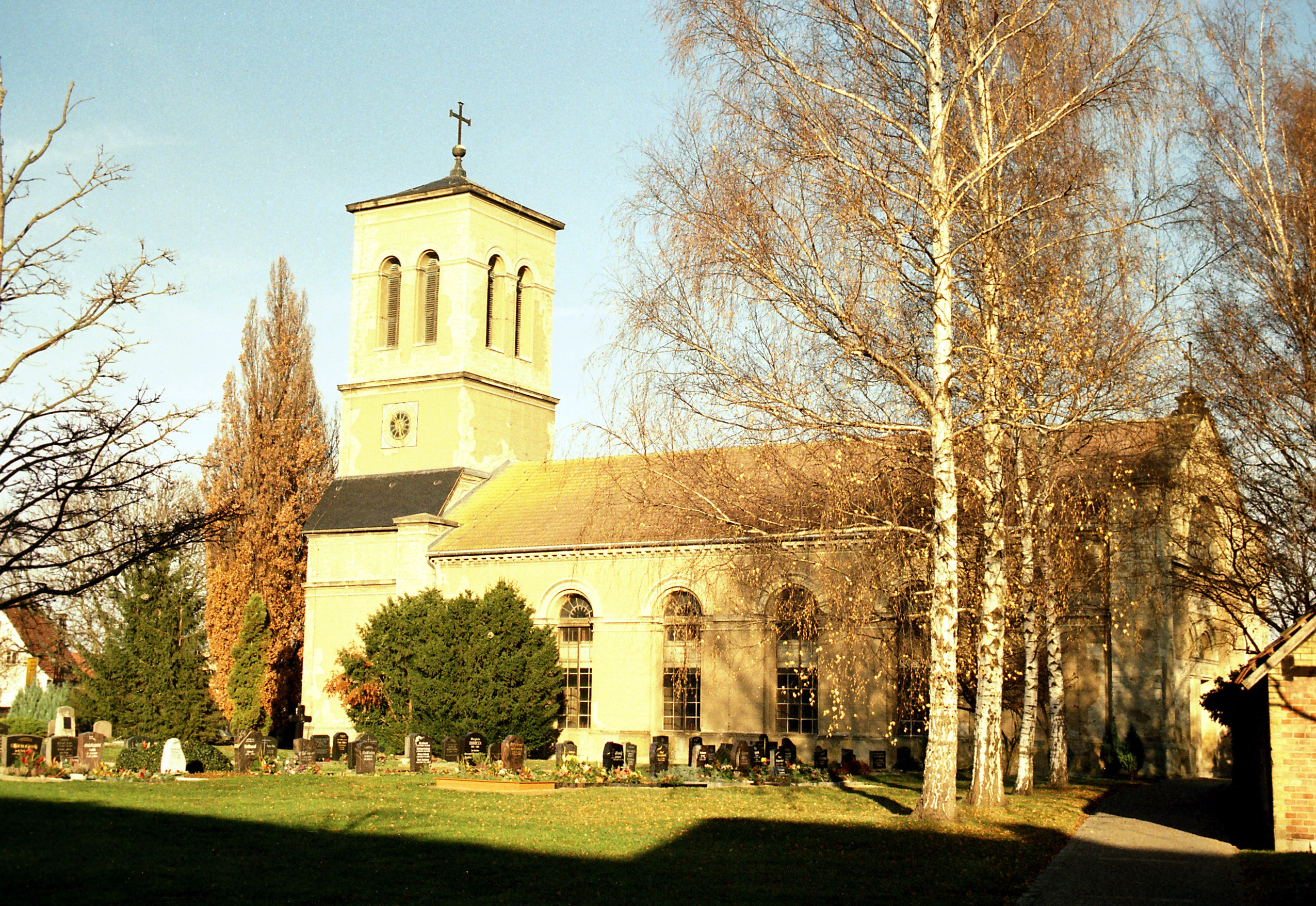 Zilly, the St. Stephen church